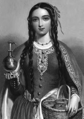 Matilda of Scotland, Queen of England